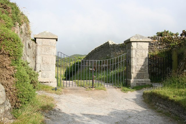 Morte Point Memorial Park gates The spectacular scenery of Morte Point is open to all thanks to the memorial to Sir Alexander Bruce Chichester Bt. whose family gave the land and memorial gates in perpetuity in 1909